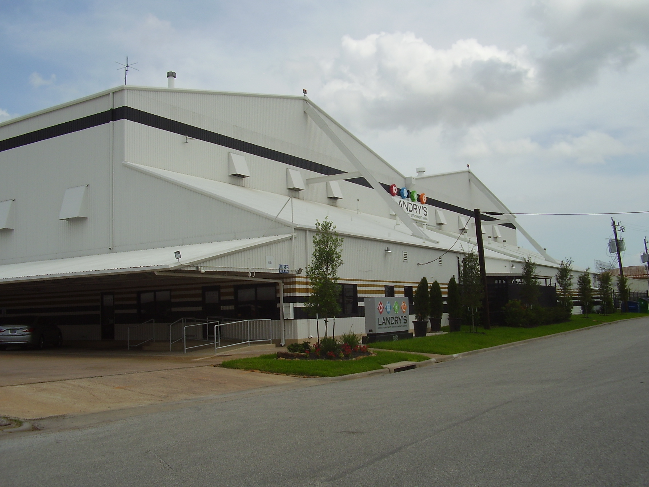 Landry's Flight Hangar - 8251 Travelair Street